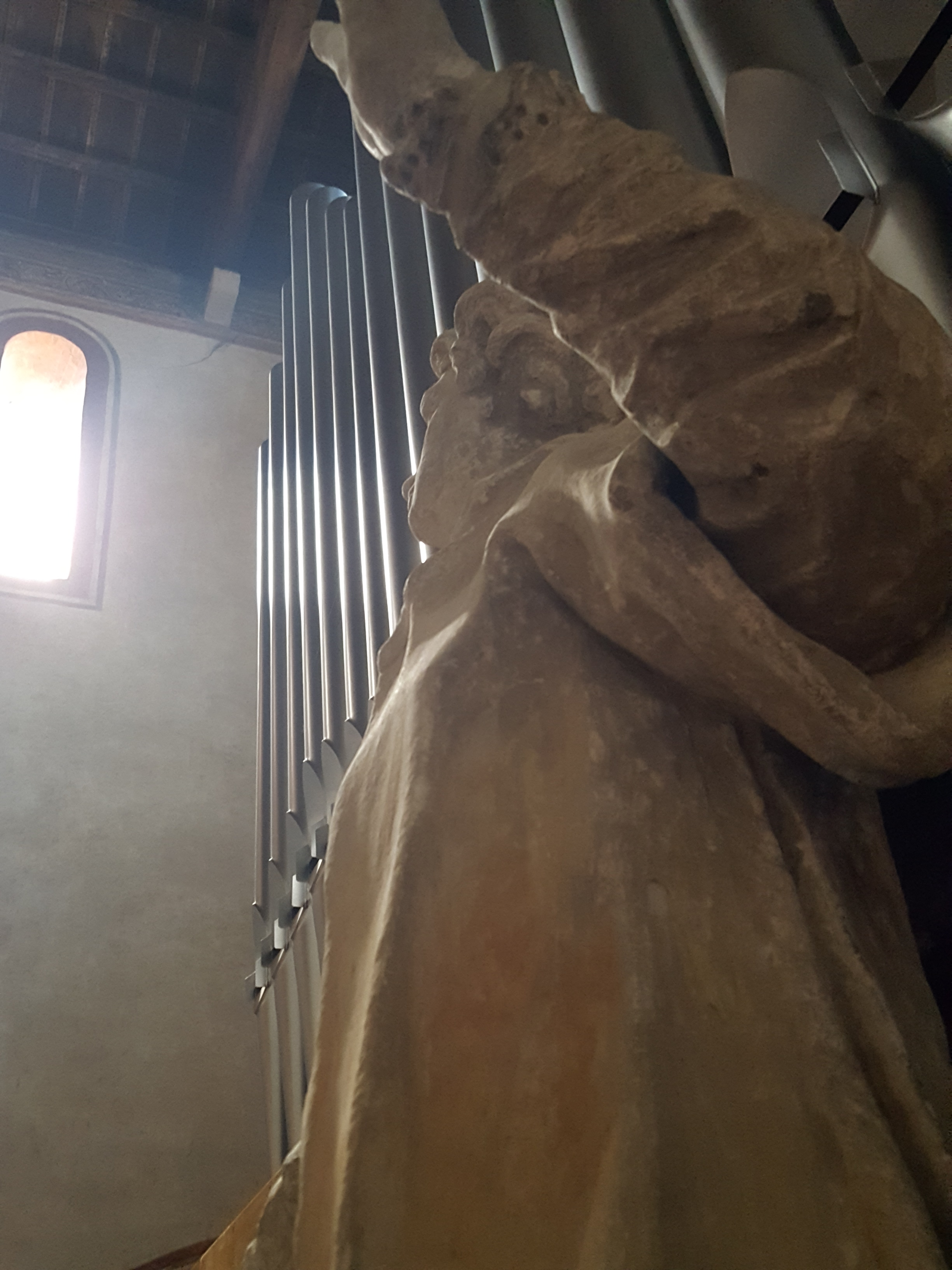 Caorle Cathedral - St Stephen and Pipe organ